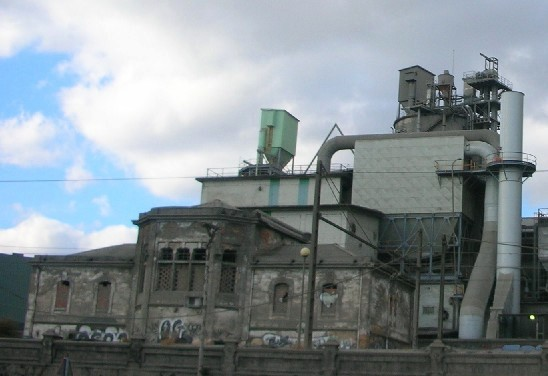 Vallcarca. Cement factory & abandoned railway station north of Sitges